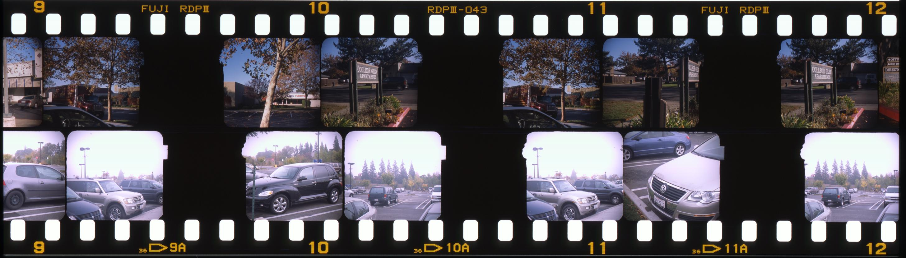 Image strip from a View-Master Personal camera, taken with old Fuji Provia 100F film, processed as uncut E6 through Walmart, and scanned on flatbed scanner using transparency adaptor. Note that, as with most film stereo cameras, the right and left images are reversed. The right image has square notch on the right side and the left image has a kind of rounded, somewhat irregular notch on the left side. These notches were used when lining up the film in the custom cutter. The camera advances by 8 sprockets with each picture and, as with Realist format cameras, there are two unrelated images between the right and left images of a pair, but there are also two smaller blank spaces.